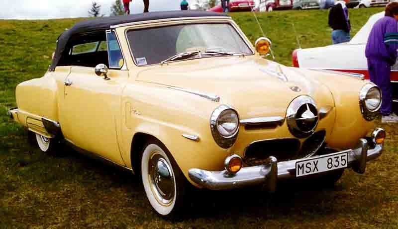 Studebaker Champion Convertible 1950